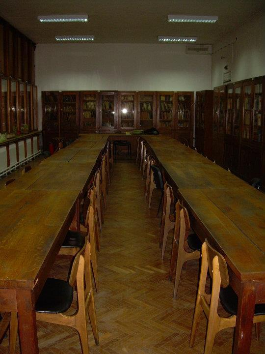 Читаоница